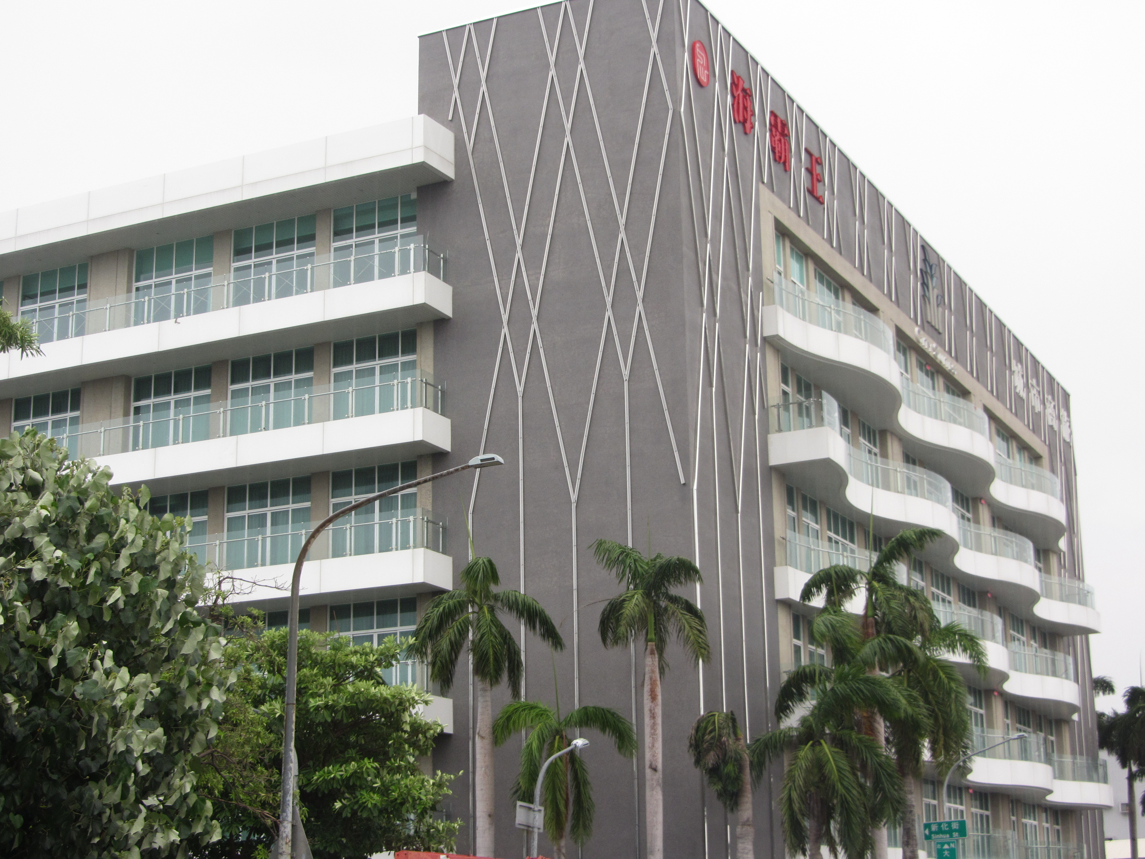 HPW City Siutes Kaohsiung.